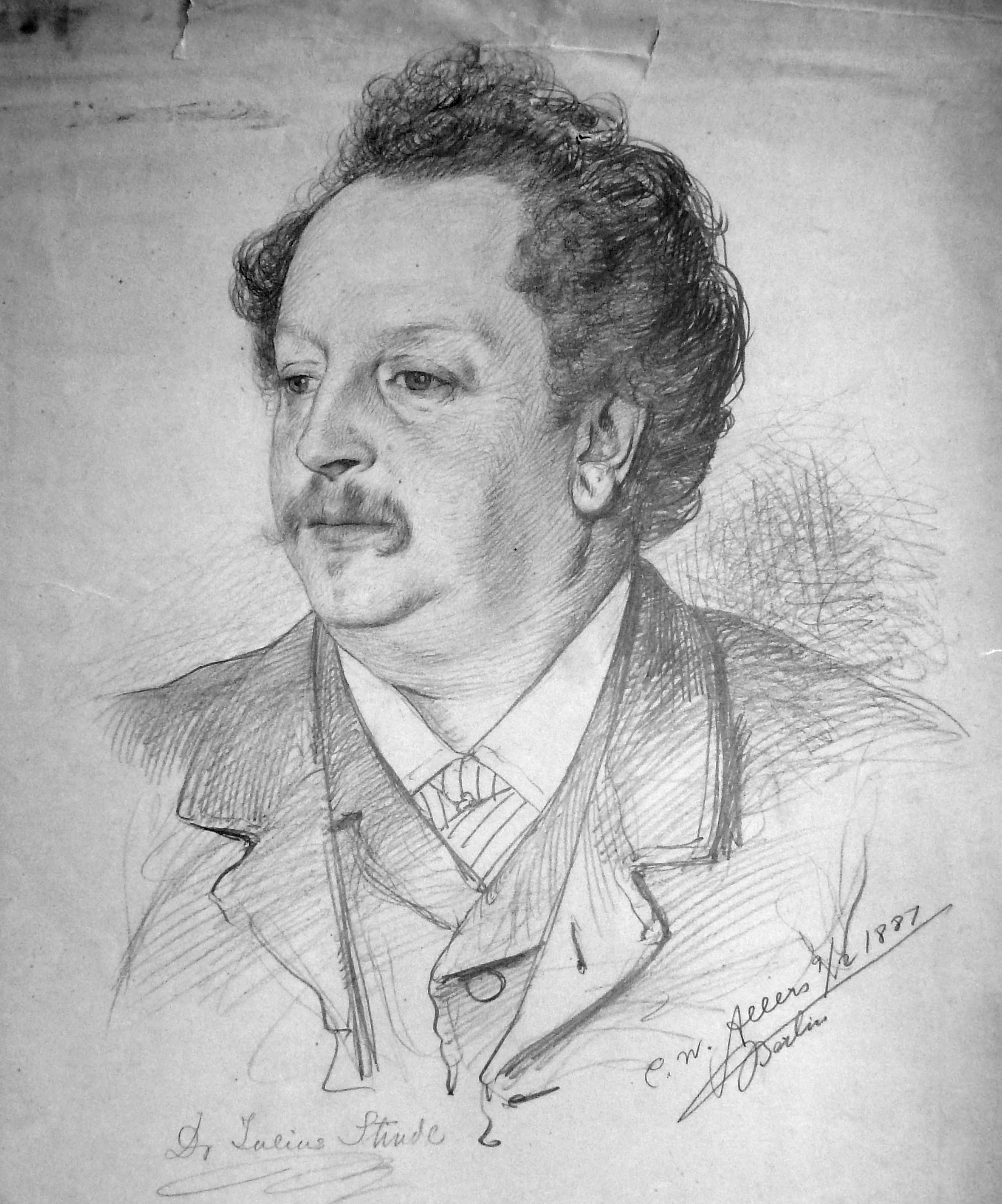 German writer Julius Stinde, 1887.